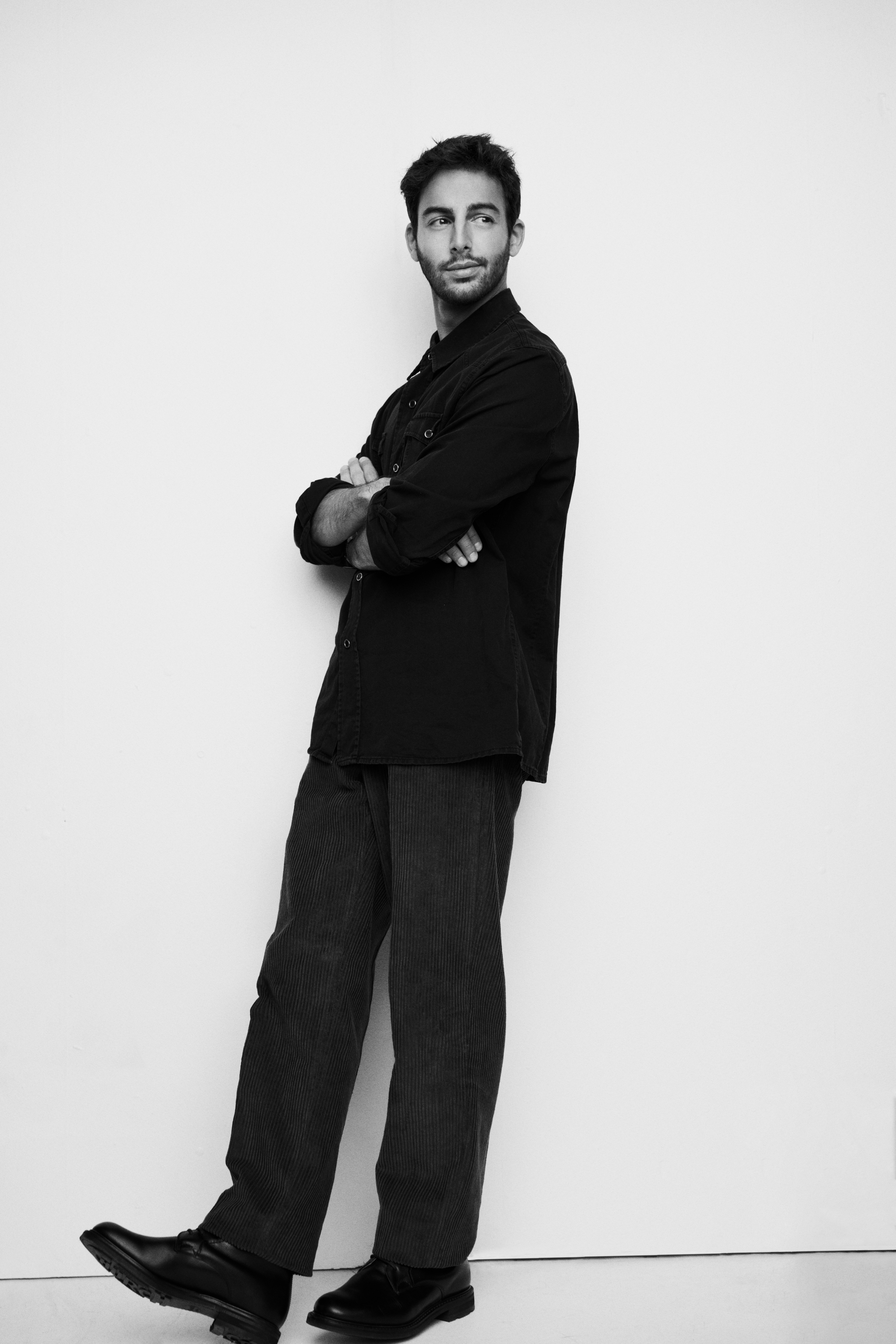 Picture of Swedish singer and songwriter Darin (Darin Zanyar) in 2020.